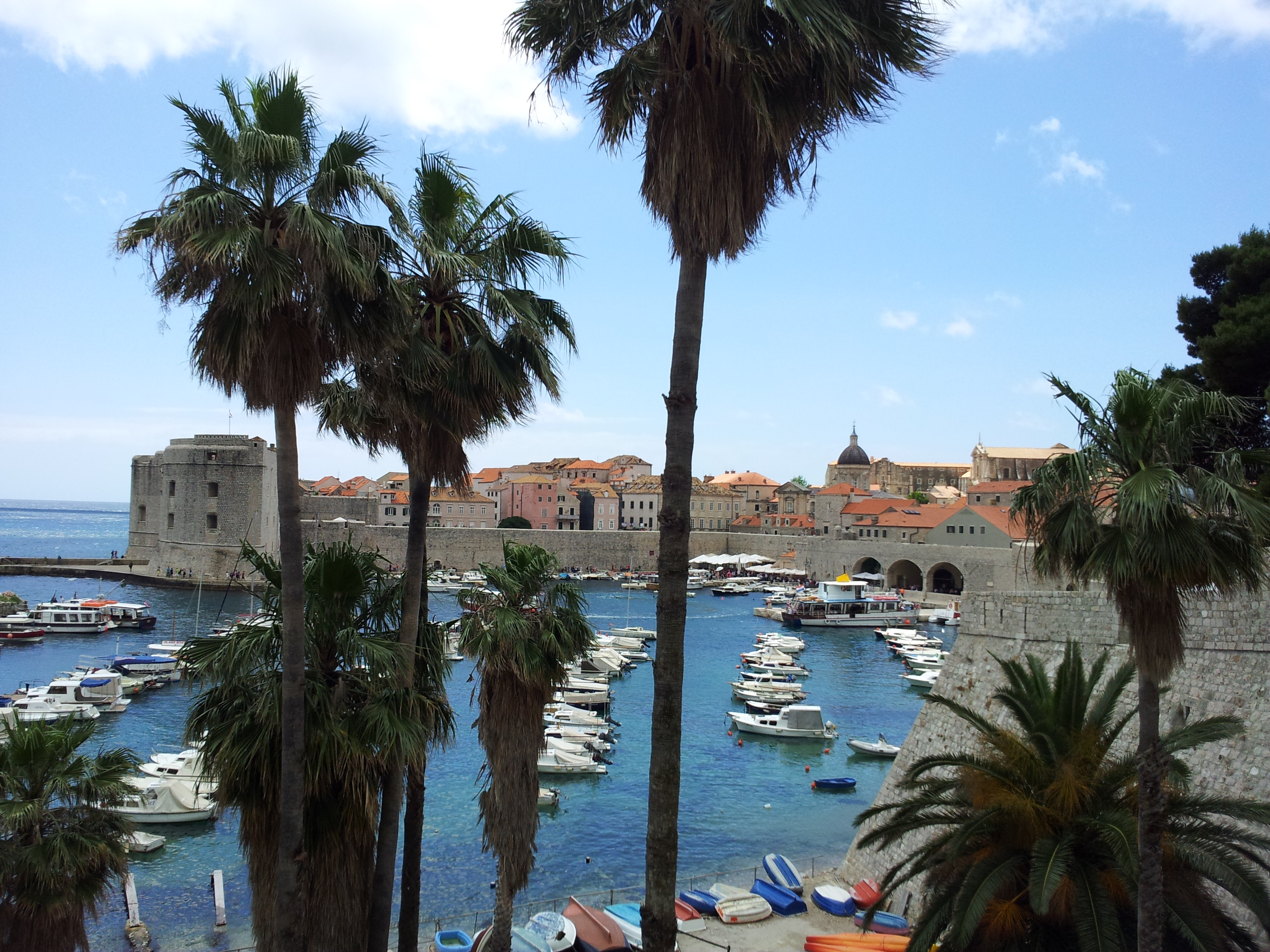 Dubrovnik Harbor with palm trees and boats.